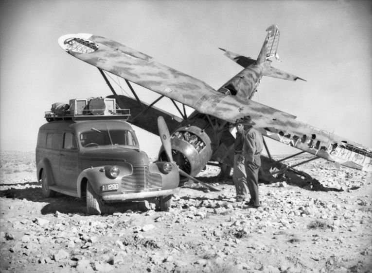 A crashed Italian Fiat C.R. 42 Falco fighter on an airfield between Capuzzo and Bardia in Libya, 1940. The van belongs to the Australian Photographic Unit.